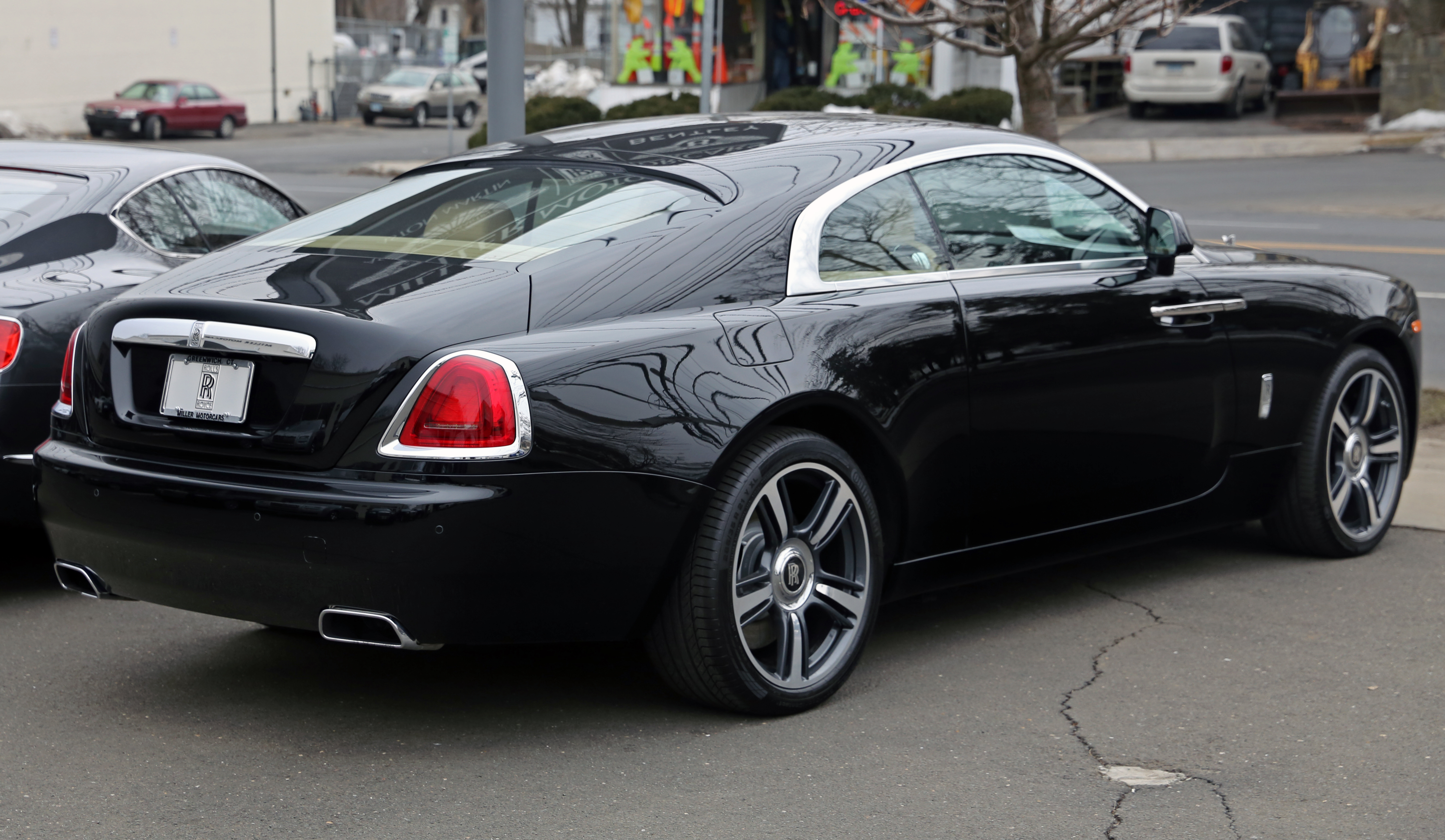 A 2014 Rolls-Royce Wraith in Diamond Black with Moccasin interior, at Miller Motorcars in Greenwich, CT.